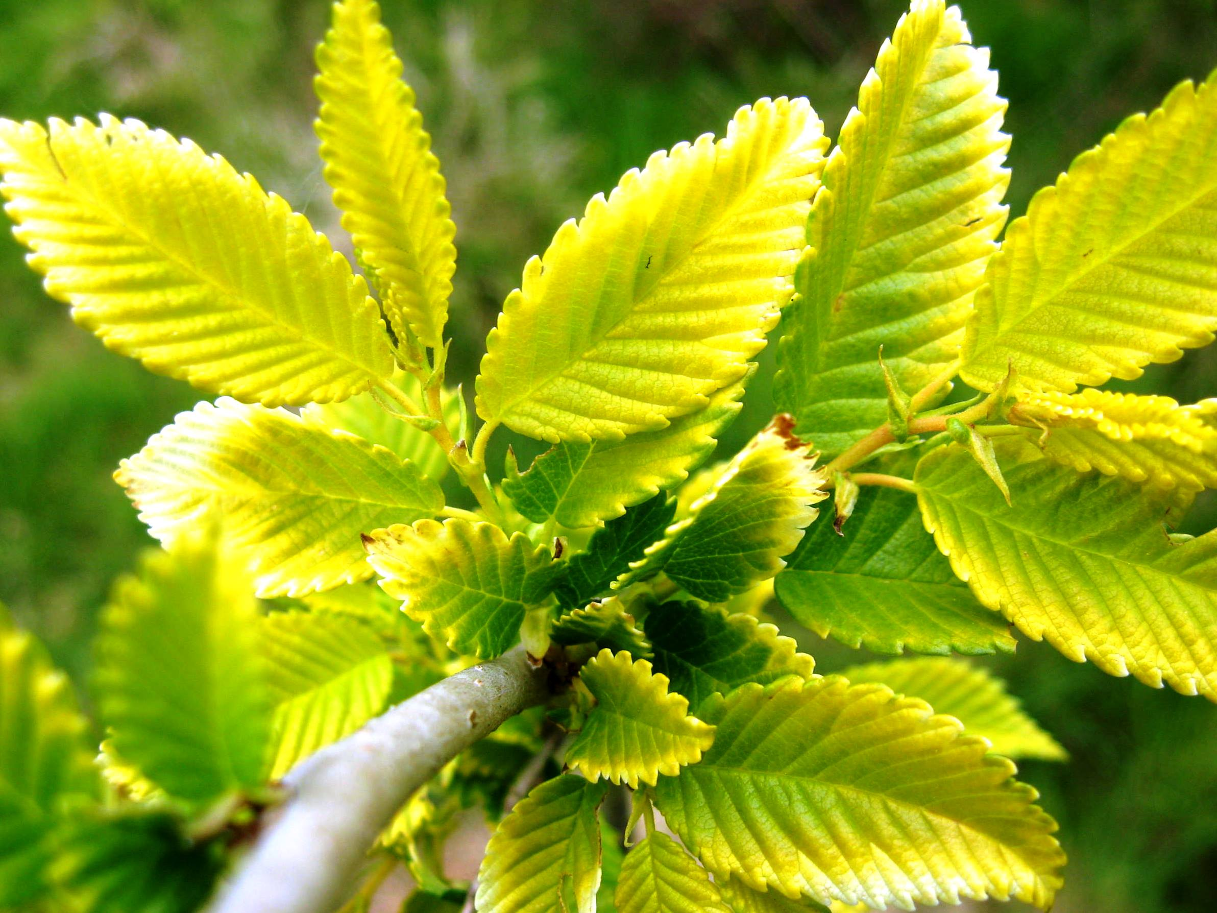 Photo of spring foliage of Ulmus pumila cultivar 'Aurescens' taken April 2015, Great Fontley, UK